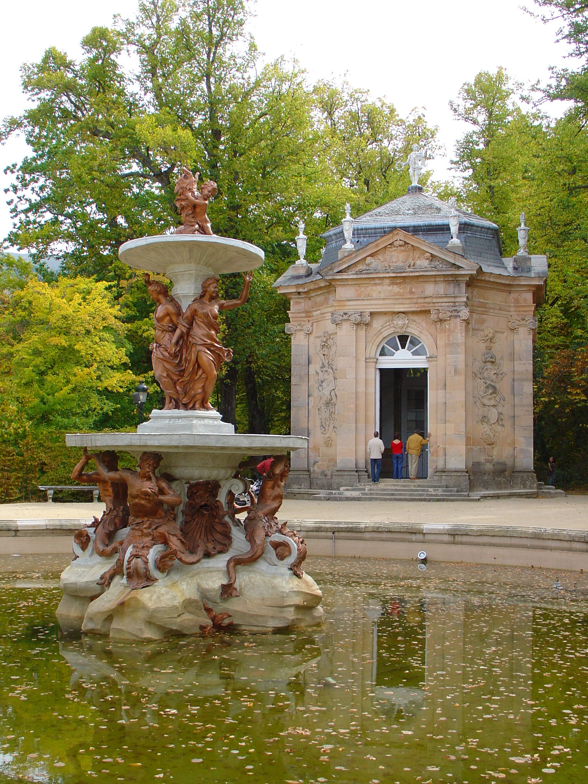 Place: La Granja, Segovia, España Exposure: 1/250 sec Exposure compensation: 0 ISO speed: ISO 100